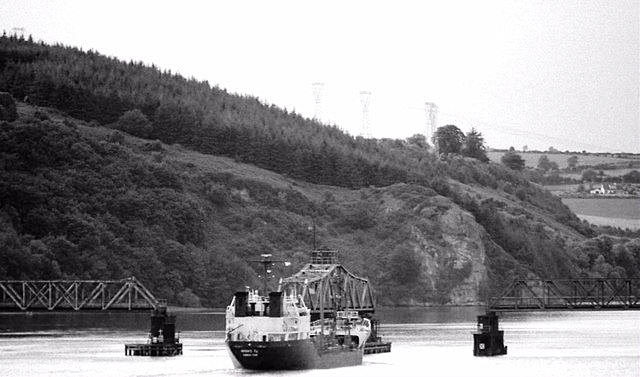 Railway Bridge over the River Barrow between County Kilkenny and County Wexford. The longest railway bridge in Ireland.